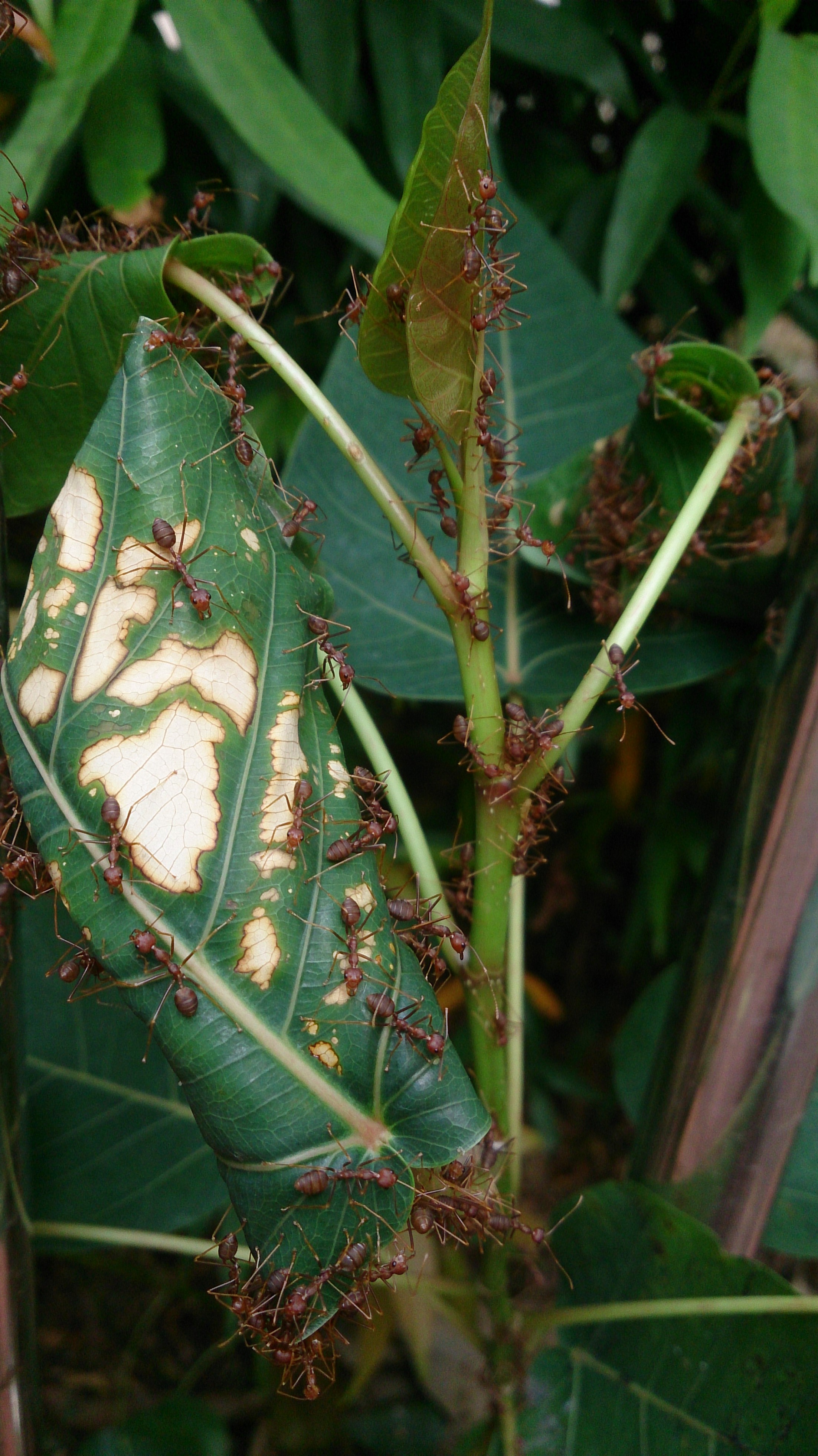 Solenopsis spp.